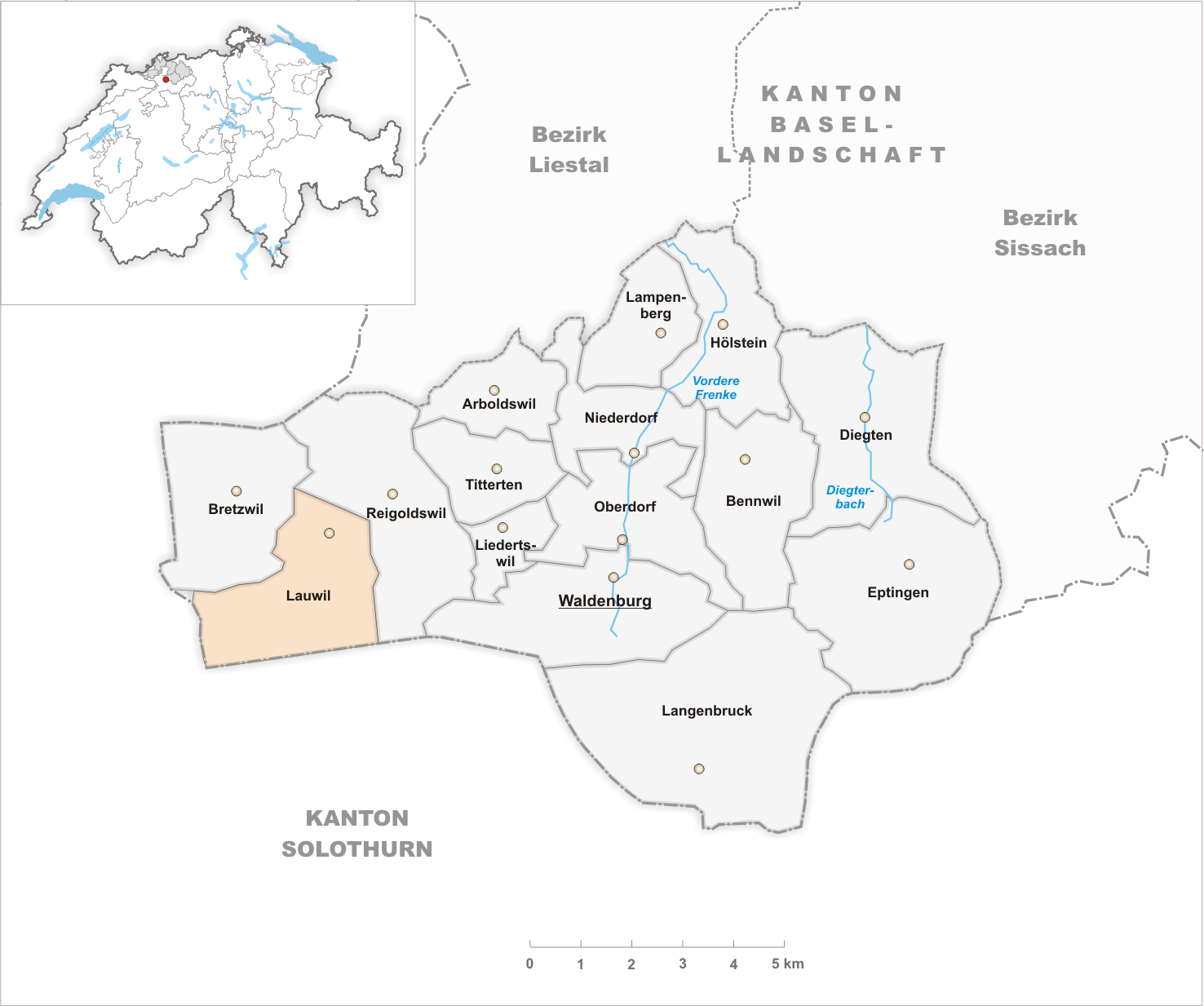 Municipality Lauwil